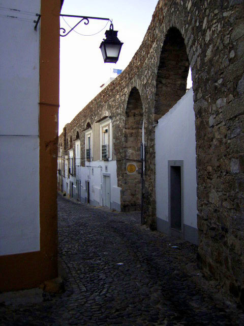 Roman aqueduct in the historic centre of Évora - UNESCO World Heritage - rua_do_Carmo